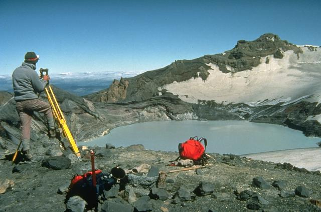 New Zealand Geological Survey volcanologist Brad Scott conducts theodolite measurements at the Crater Lake vent in 1988 at the summit of Ruapehu volcano. Measurements of the lake height, temperature and chemistry are made routinely, and along with seismic instrumentation, are used to help forecast future activity of the volcano. Intermittent steam explosions from beneath the lake have produced lahars, which have damaged ski facilities on the upper flanks and structures in river valleys below the volcano.